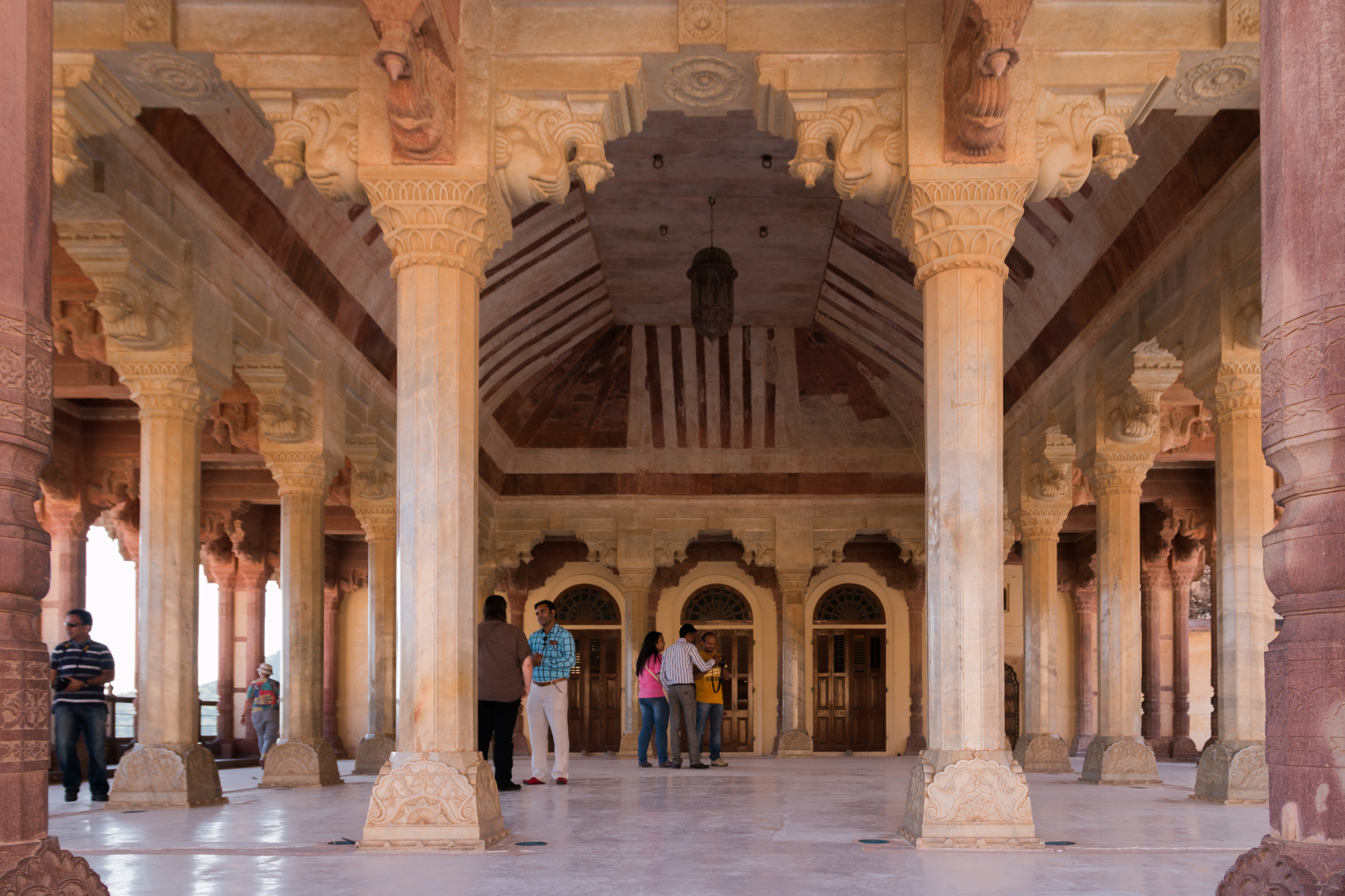 Diwan I Am, Pavilion public audiencies.